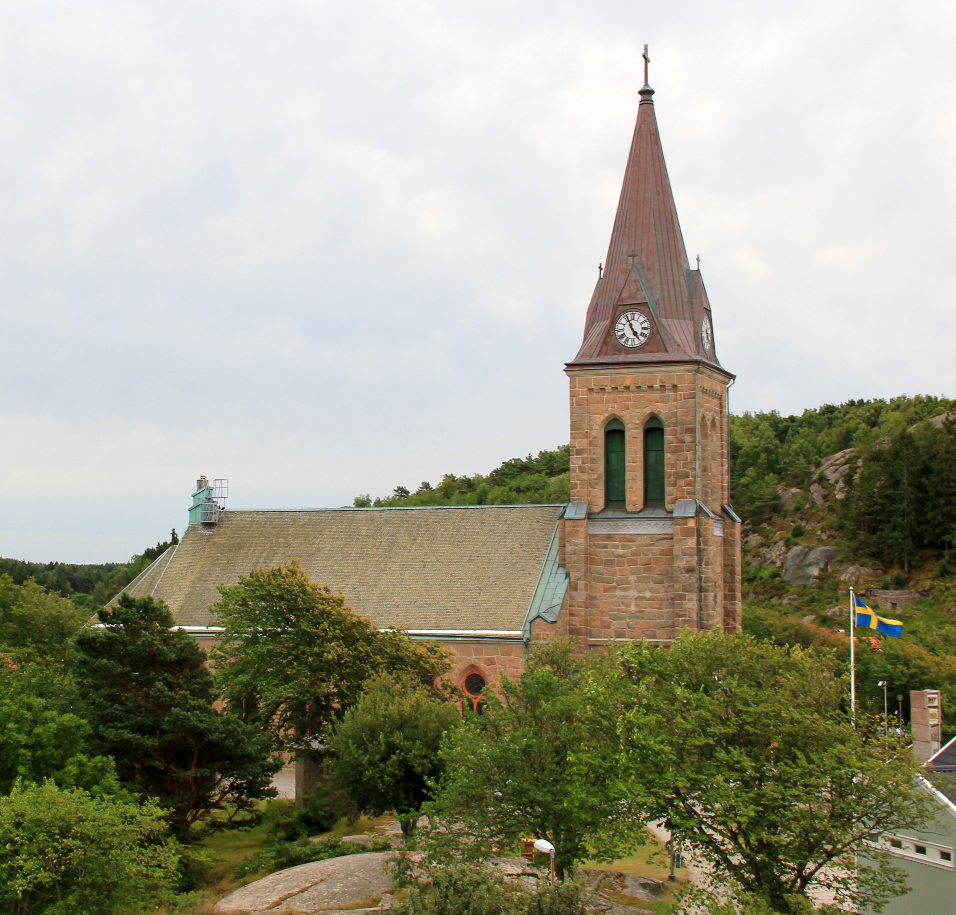 Fjällbacka kyrka